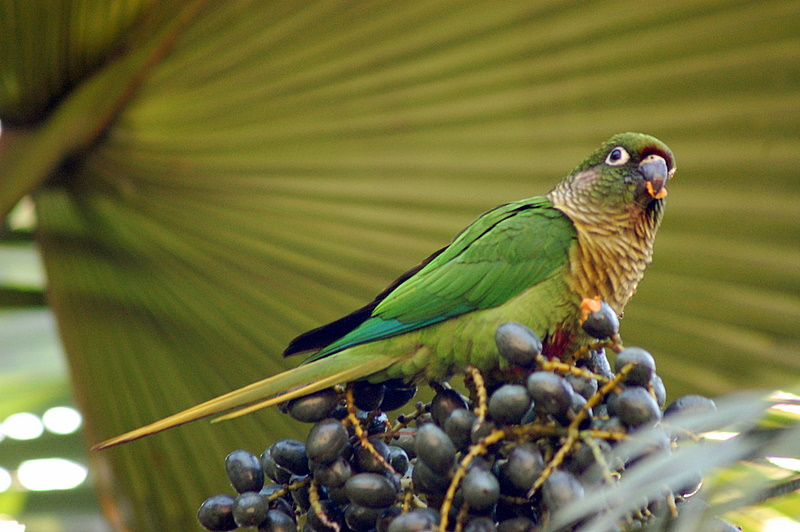 Maroon-bellied Conure, (Pyrrhura frontalis) eating fruit.